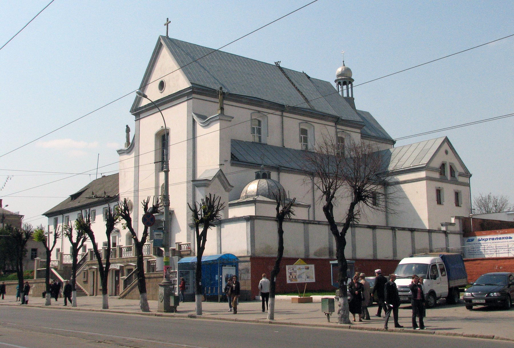 Catholic church in Vinnytsia, Ukraine